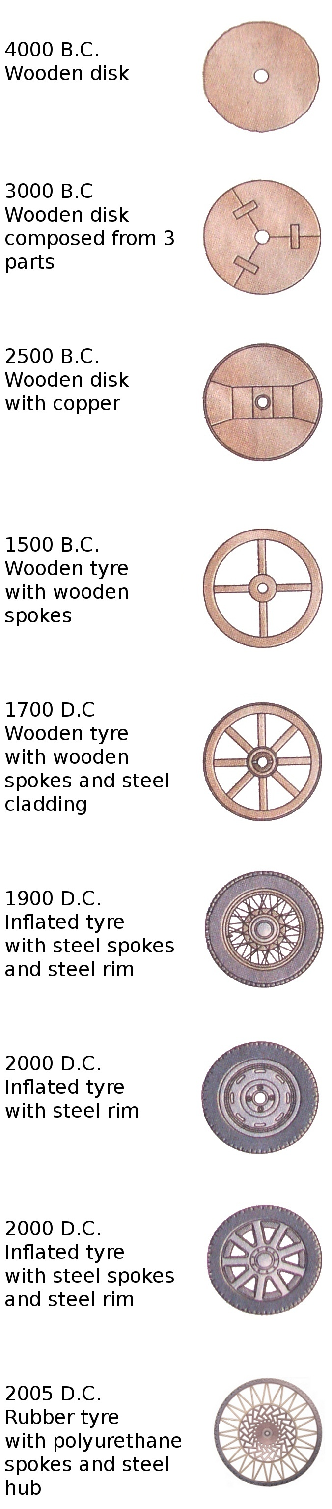 A schematic showing the types of wheels as used troughout history. The schematic was based on an image from "Plaza weekend", 26 March 2005.